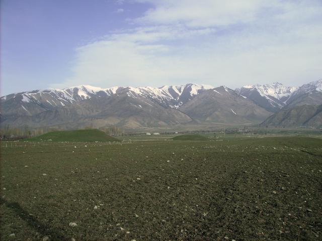 A chain of mounds in a field, against the background of mountains, in Issyk-Kul Region, near Tyup